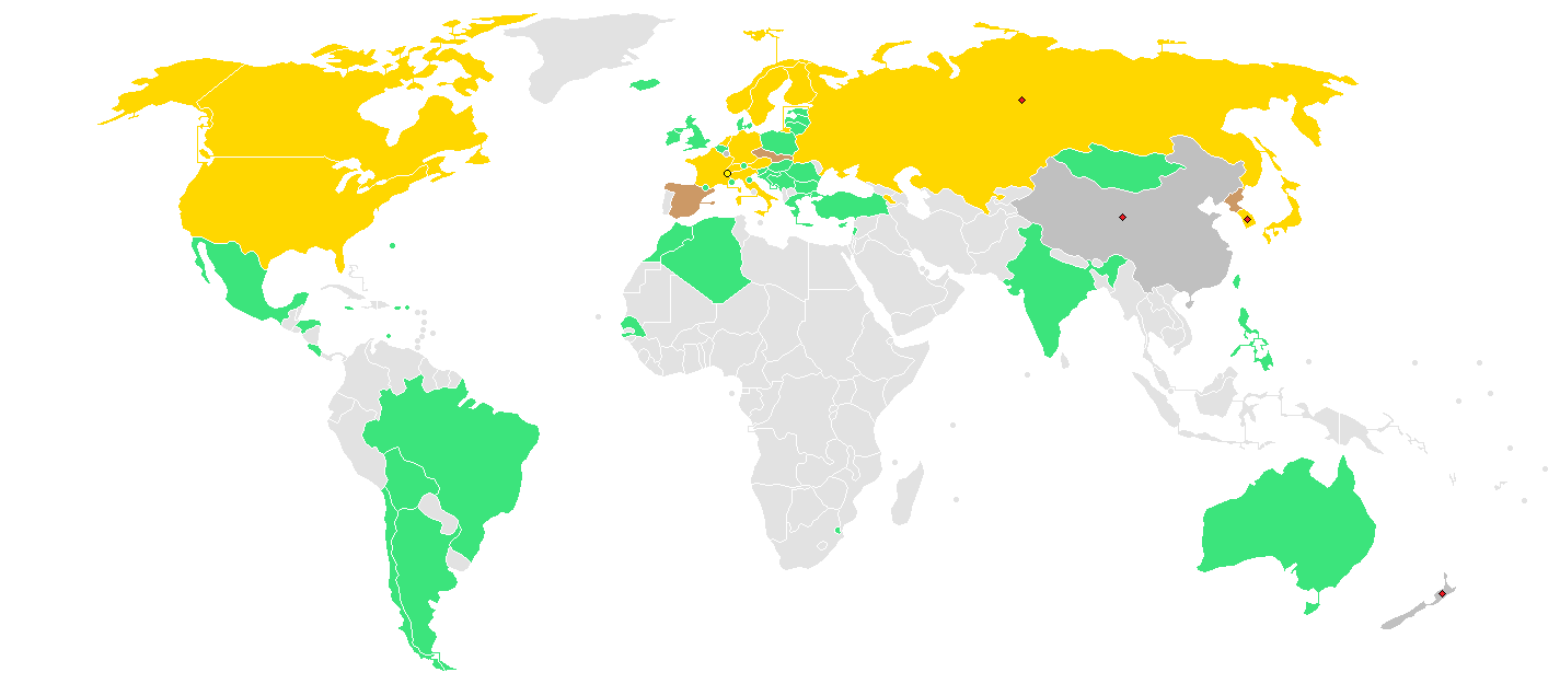 Gold for countries achieving at least one gold medal.Silver for countries achieving at least one silver medal.Bronze for countries achieving at least one bronze medal.Green for countries that didn't get any medal.Gray for countries that did not participate.A yellow circle displays the host city (Albertville).Red diamonds display countries achieving their first medal ever.